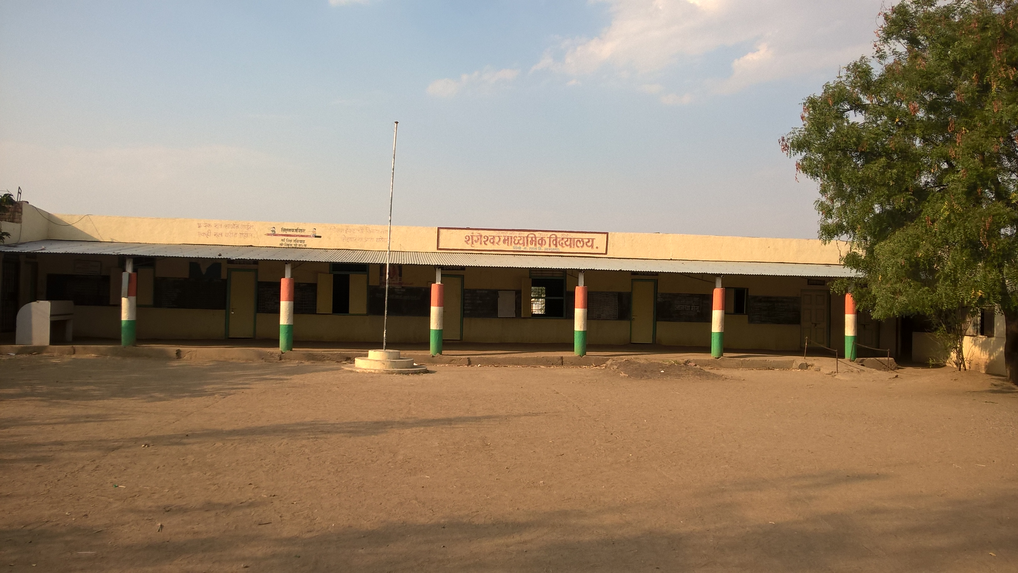 Middle School Building of Shingave Village